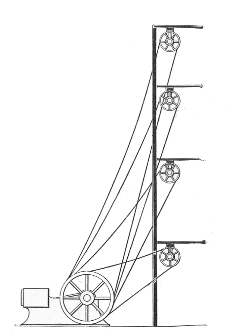 Factory power distribution by rope drives (Rankin Kennedy, Modern Engines, Vol VI).jpg